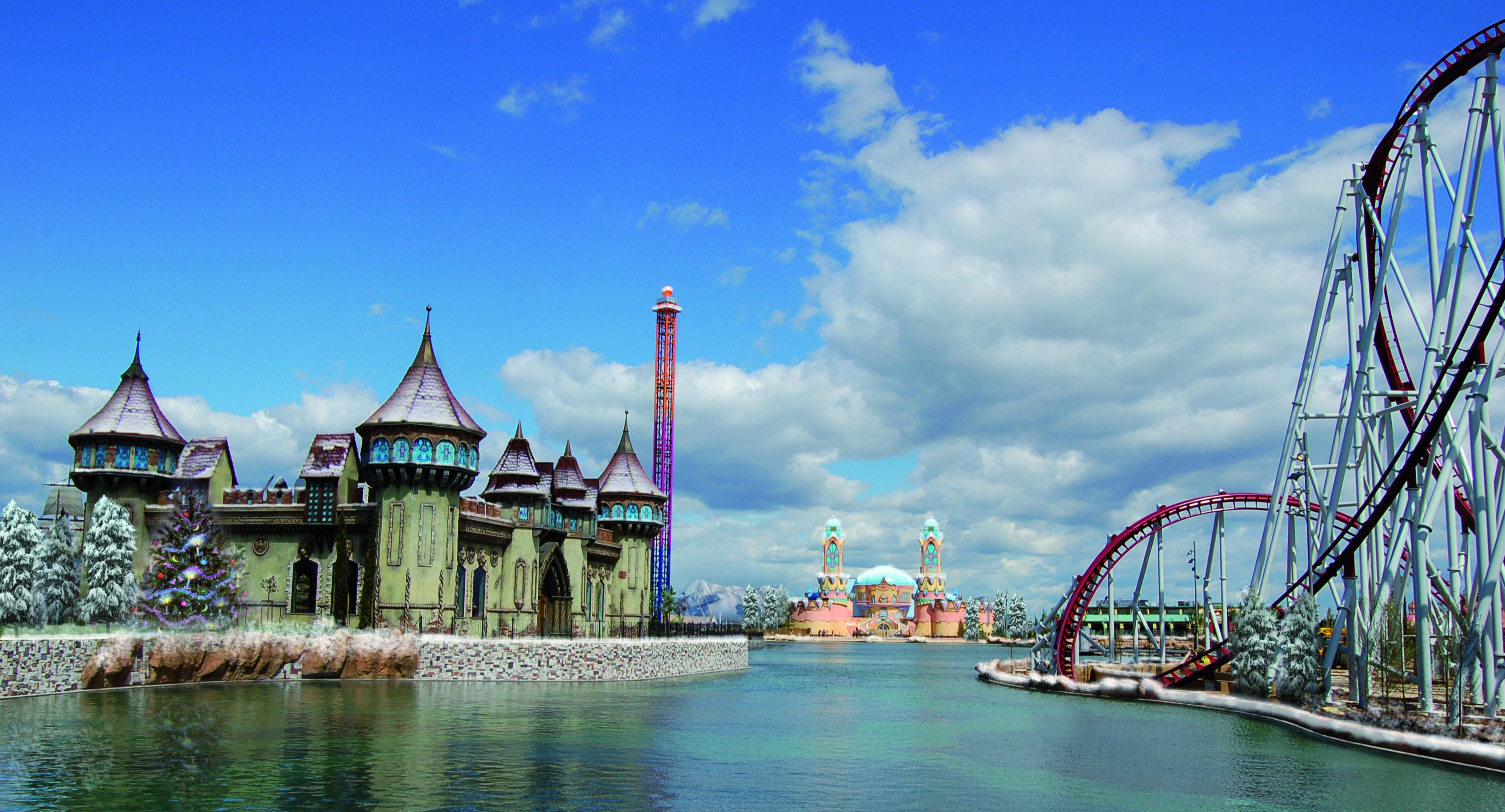 Snow in Magicland